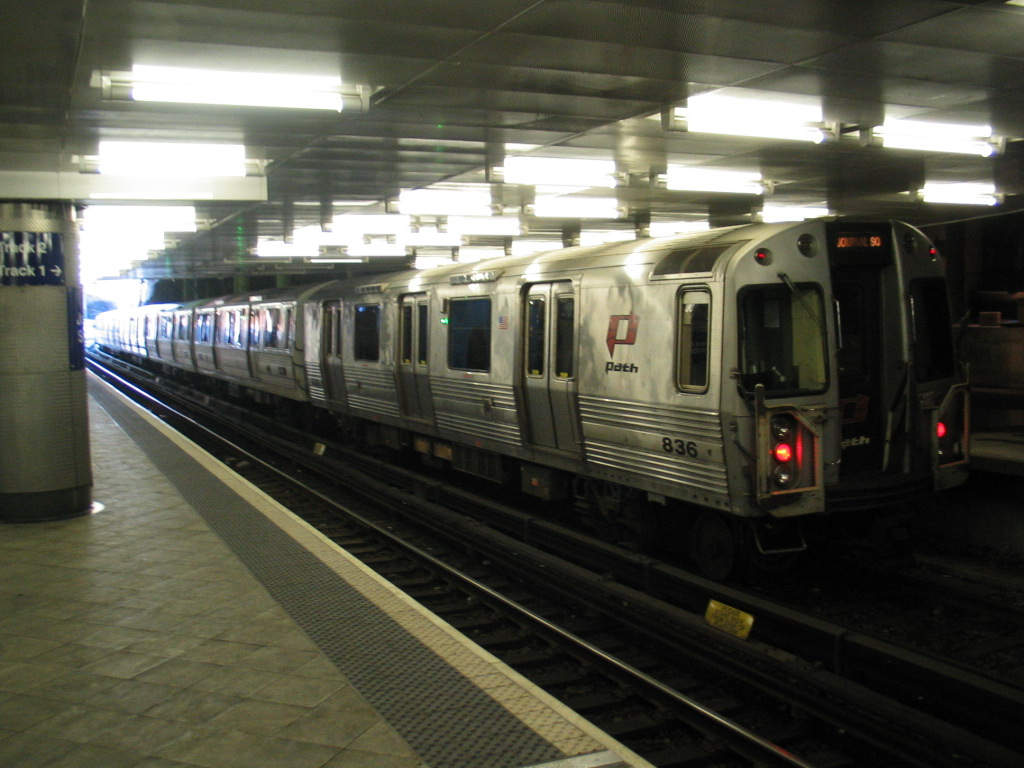 THe newest type of PATH railcars. Photographed at Journal Square